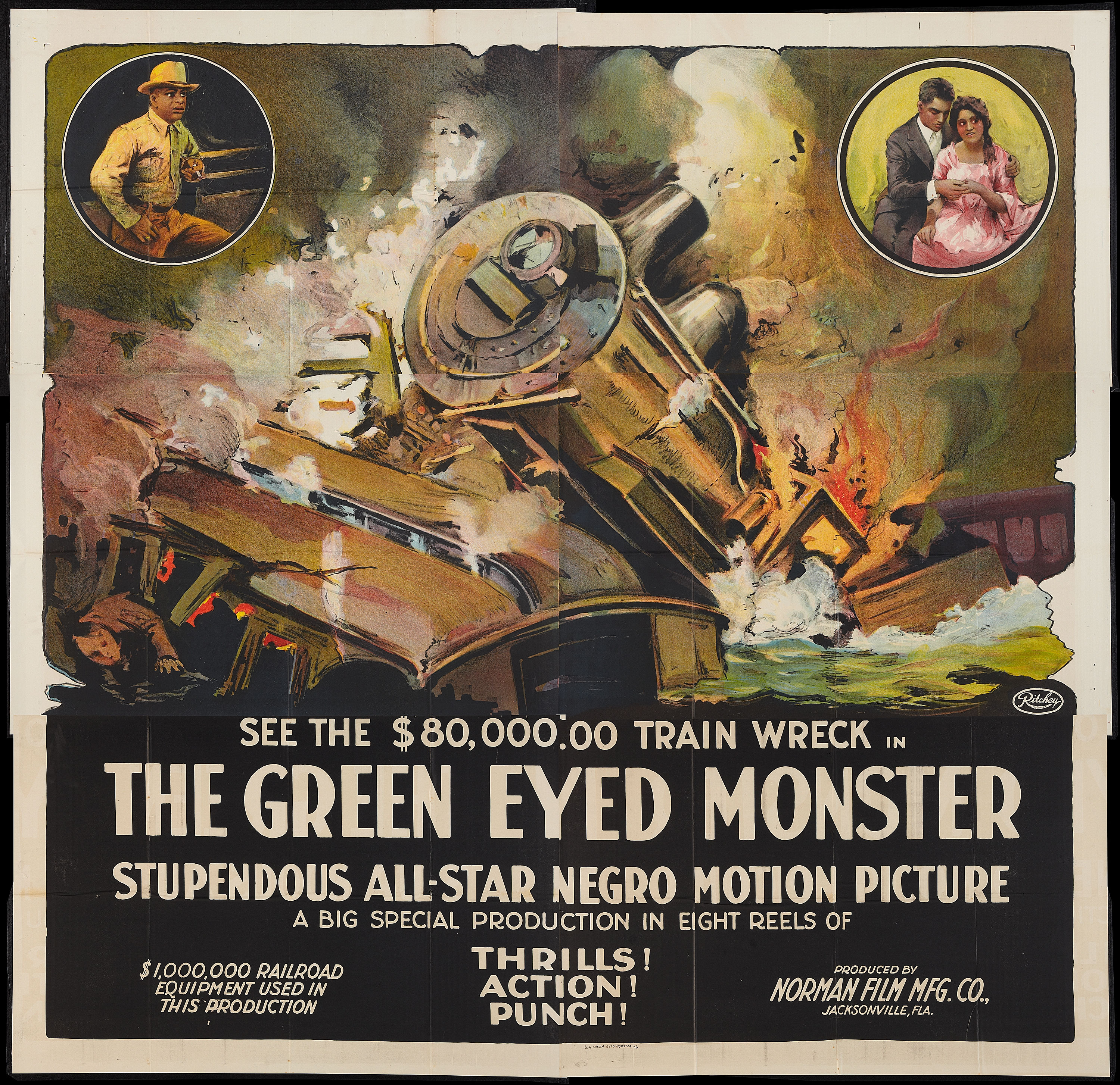 Poster from the 1919 film The Green Eyed Monster.